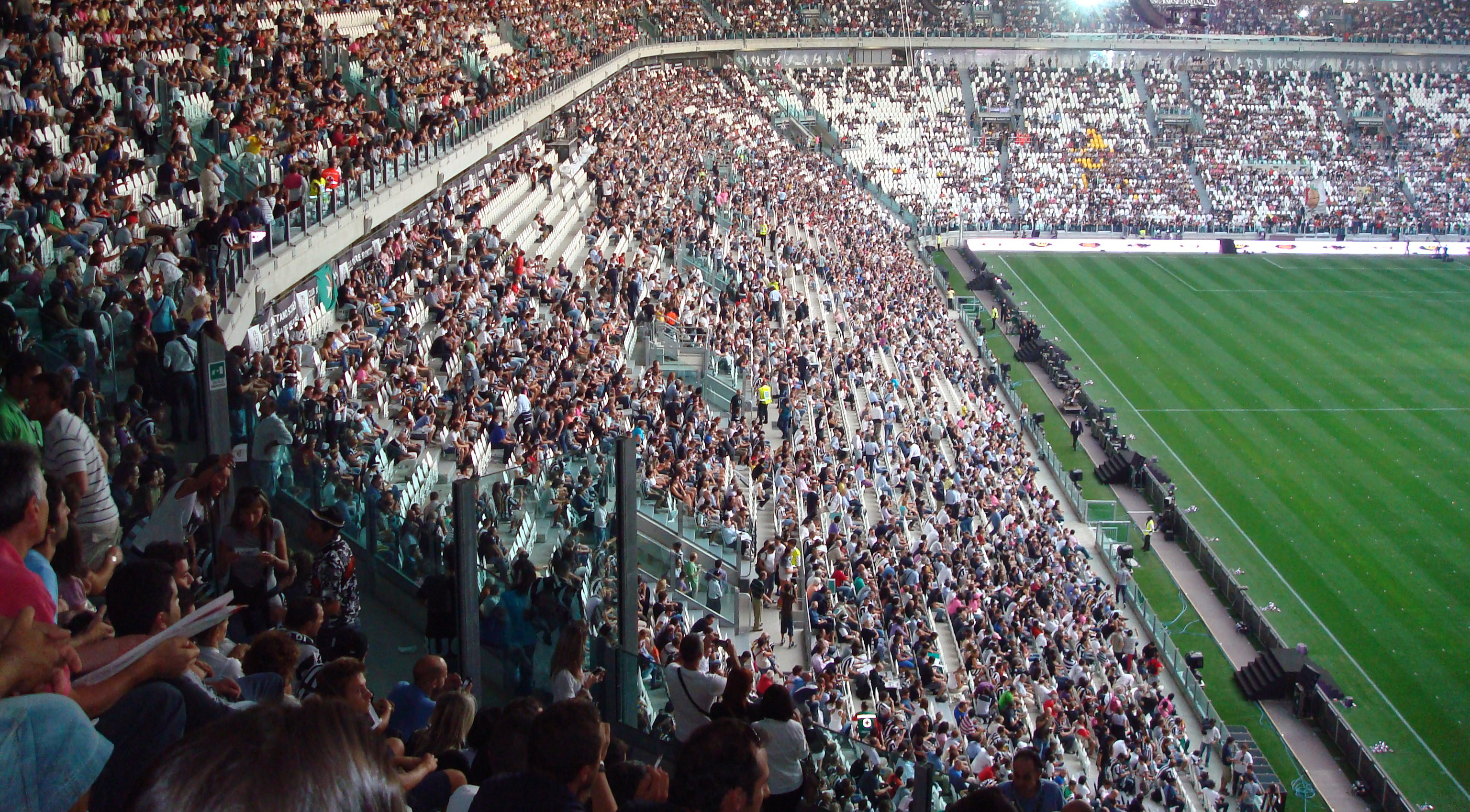 A view of east stand at 'Juventus Stadium' ahead the ceremony of inauguration and the pre season friendly match between FC Juventus and Notts County.